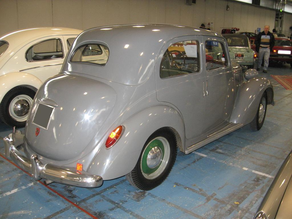 Subject: Fiat 1100 E Author: Luc106 Date: February 11th, 2007 City/Country: Pesaro, Italy Event: Old cars meeting I release all rights in the public domain